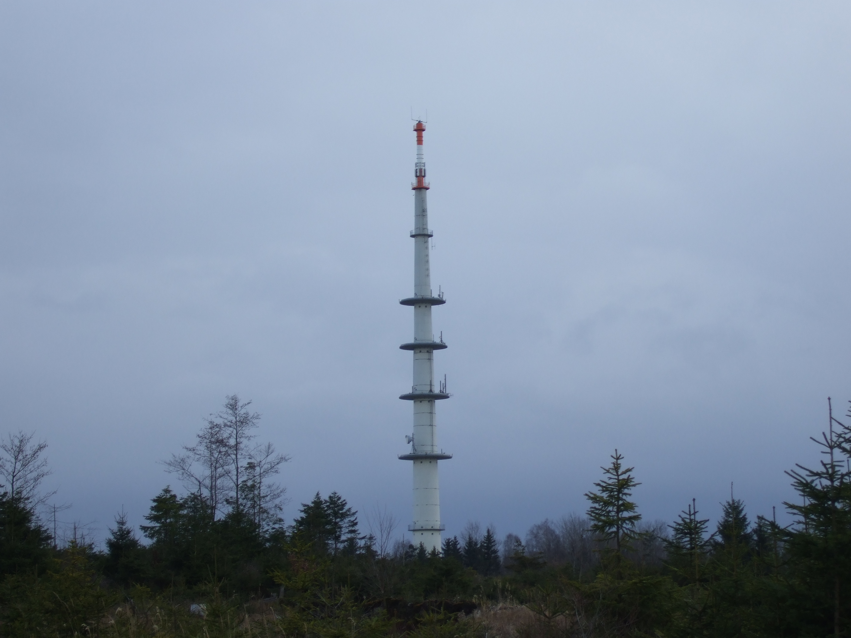 Sender Söhrewald